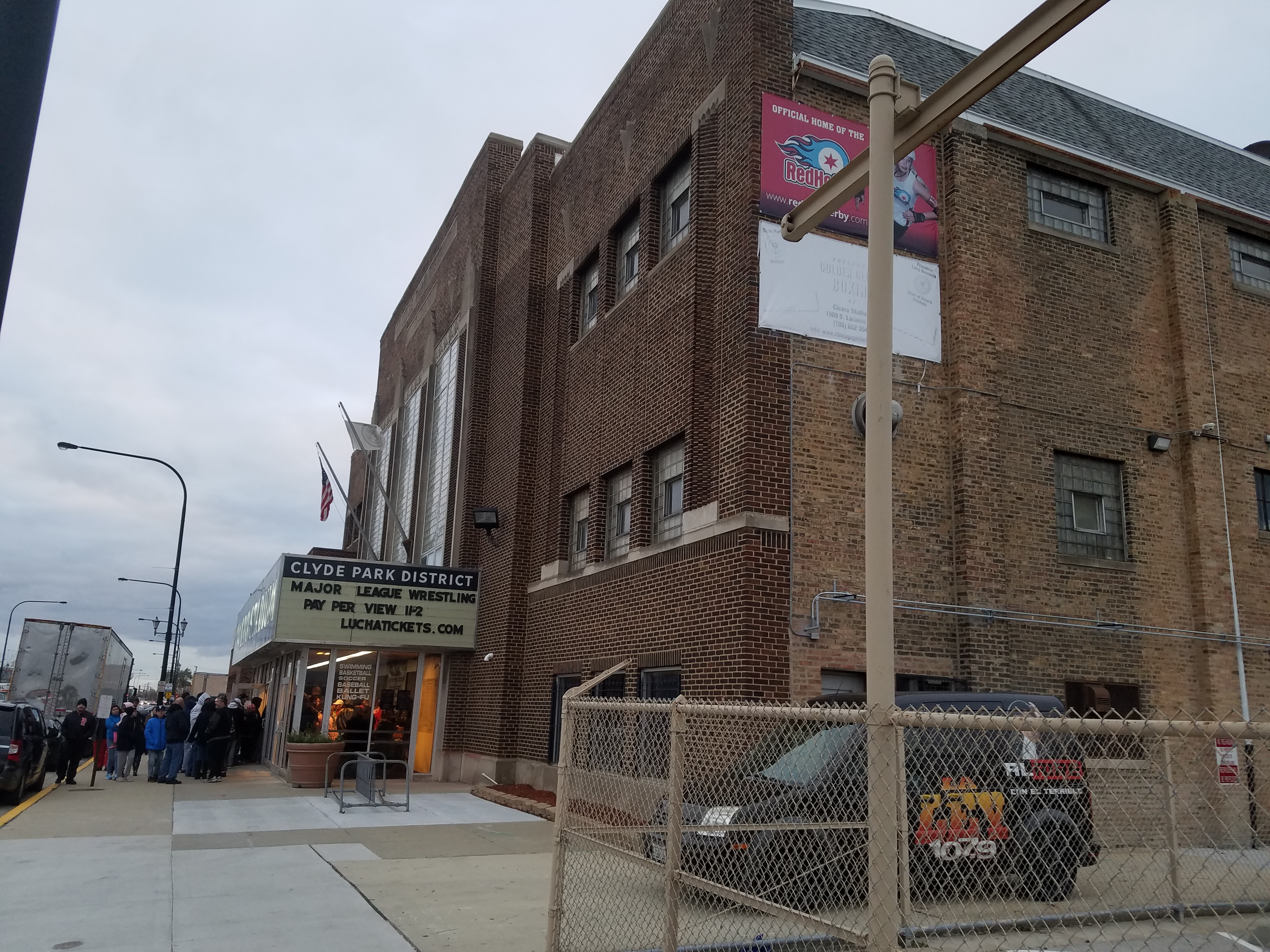 Outside Cicero Stadium November 2, 2019 before MLW Saturday Night SuperFight